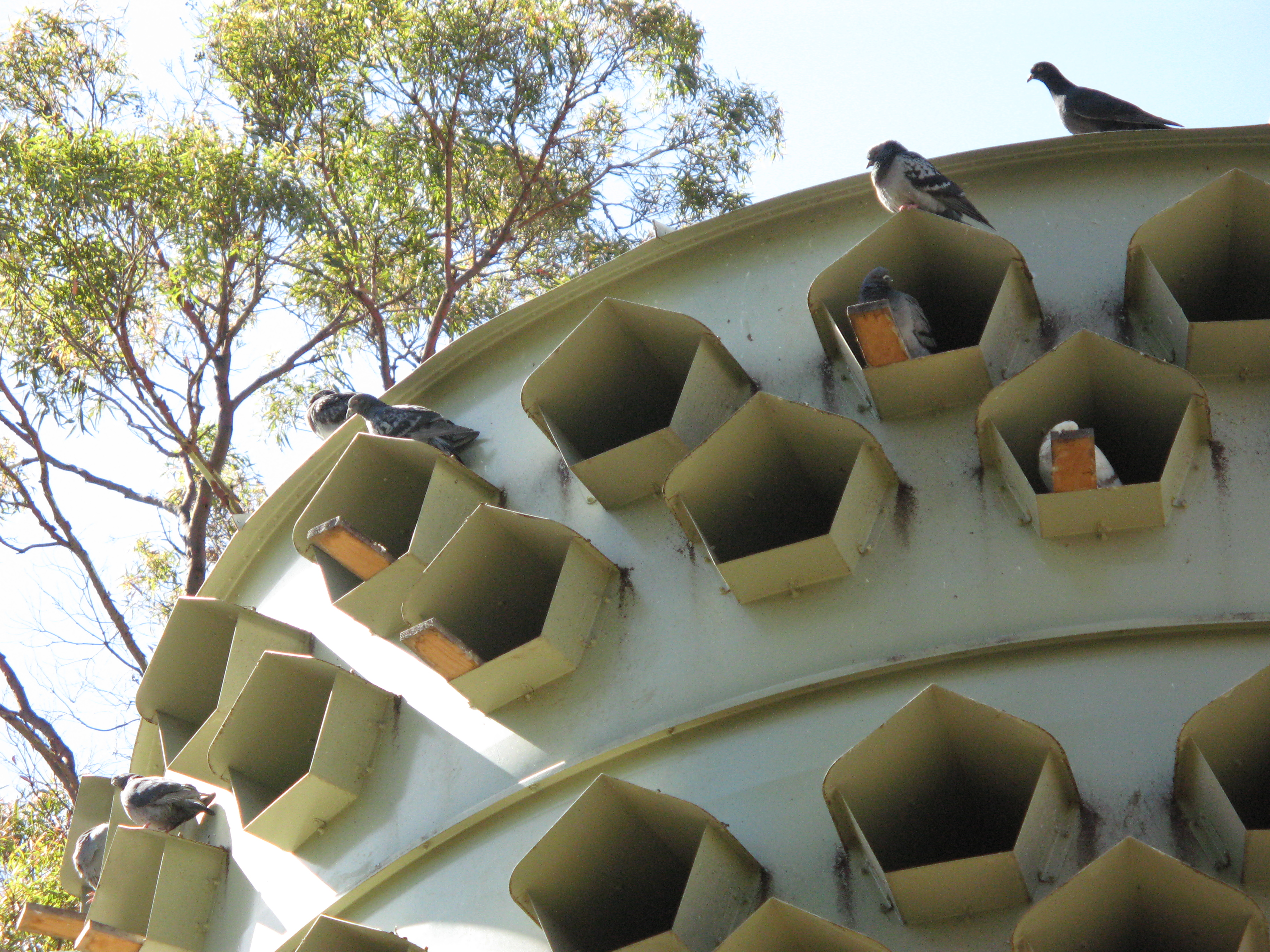 Detail of the Batman Park pigeon loft. Photo taken by Nick carson in December 2008.